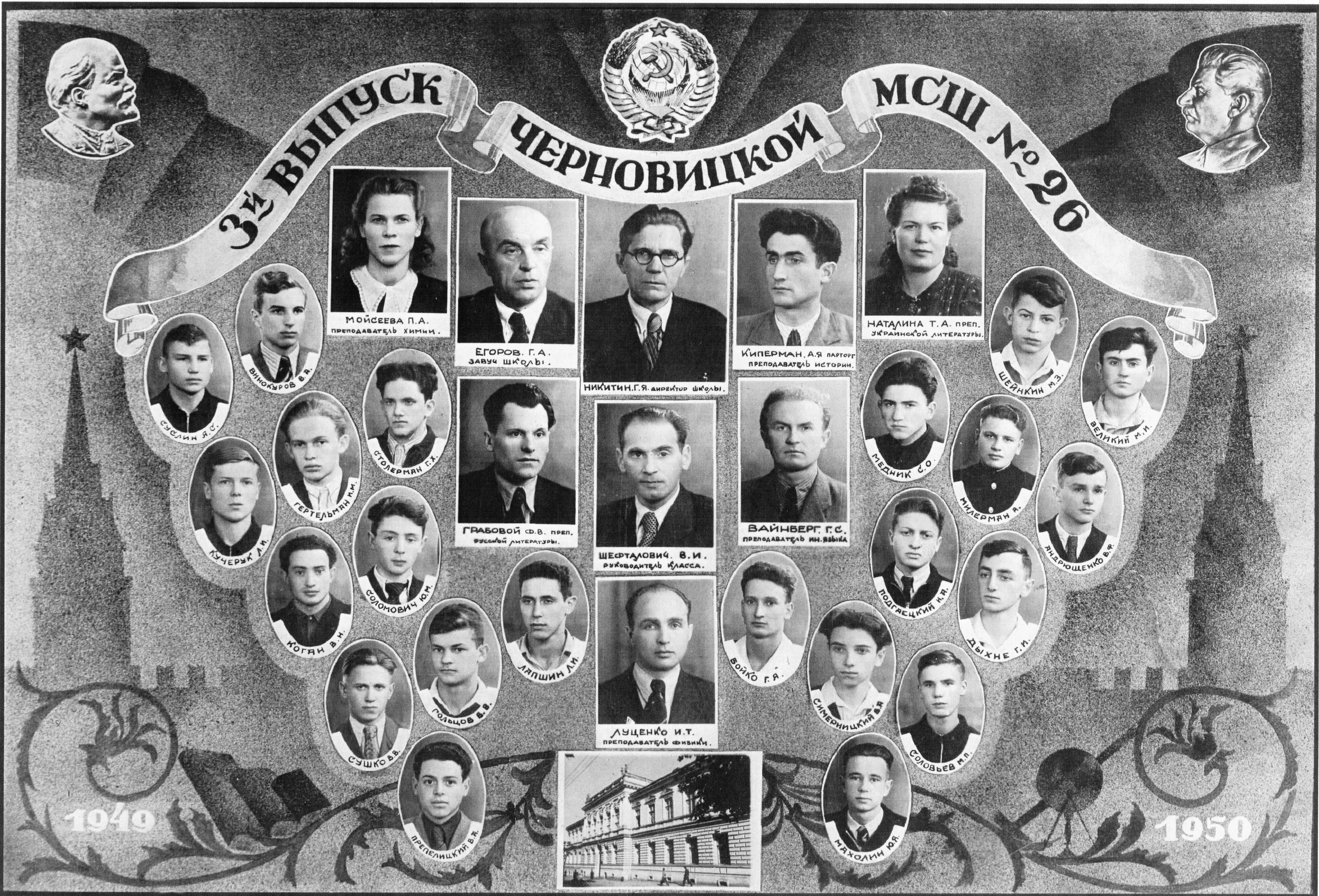 Vinokurov V.A.